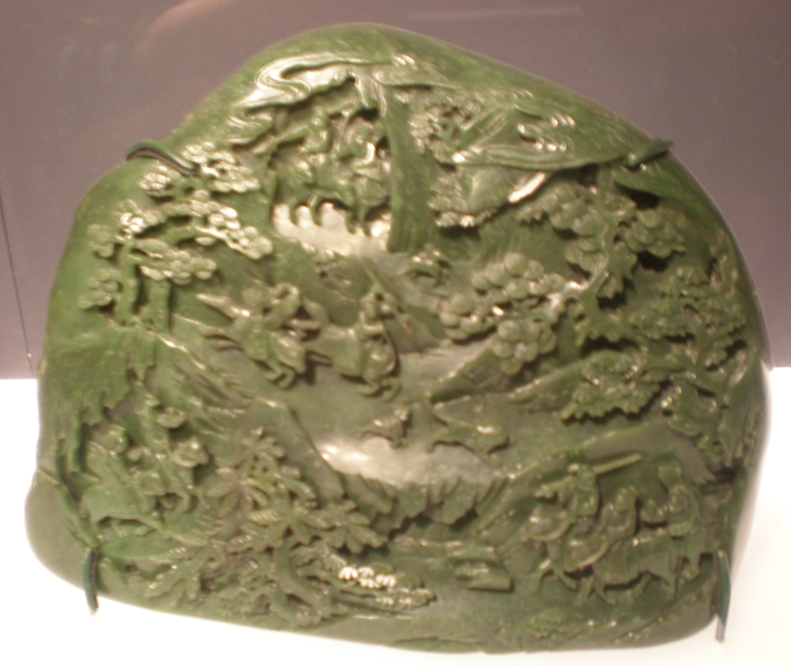 Nephrite carving depicting a mountain with a hunting scene from China, Qing Dynasty (1644-1911). On display at the Asian Art Musem of San Francisco. B60J49